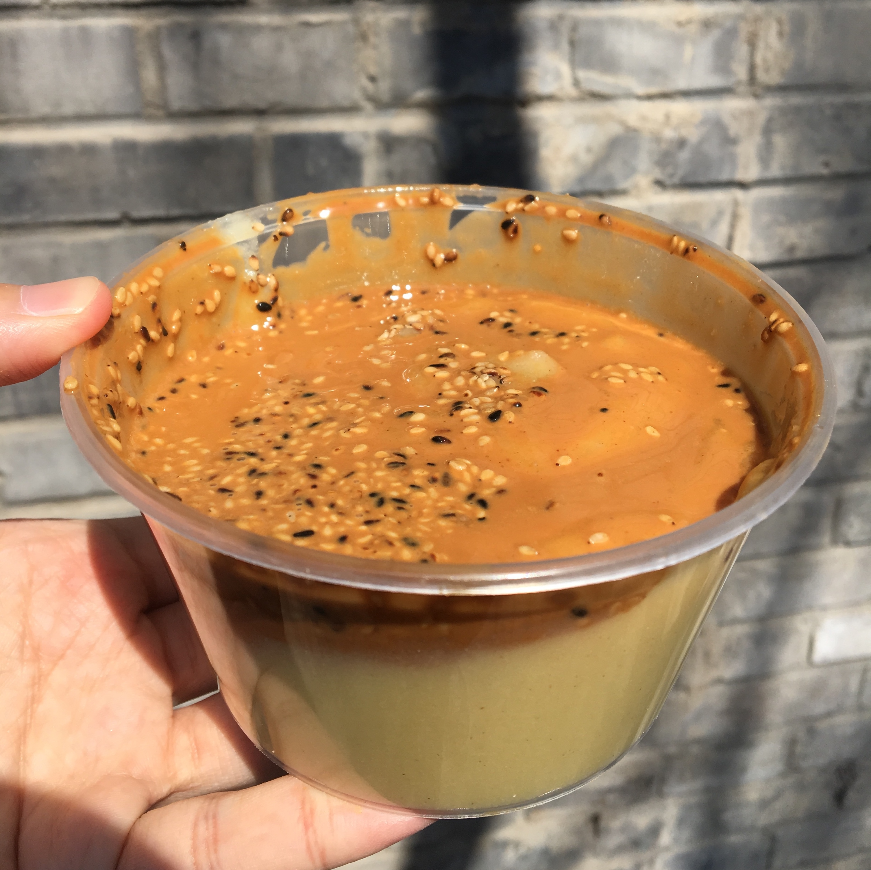 Miancha(面茶) in Beijing